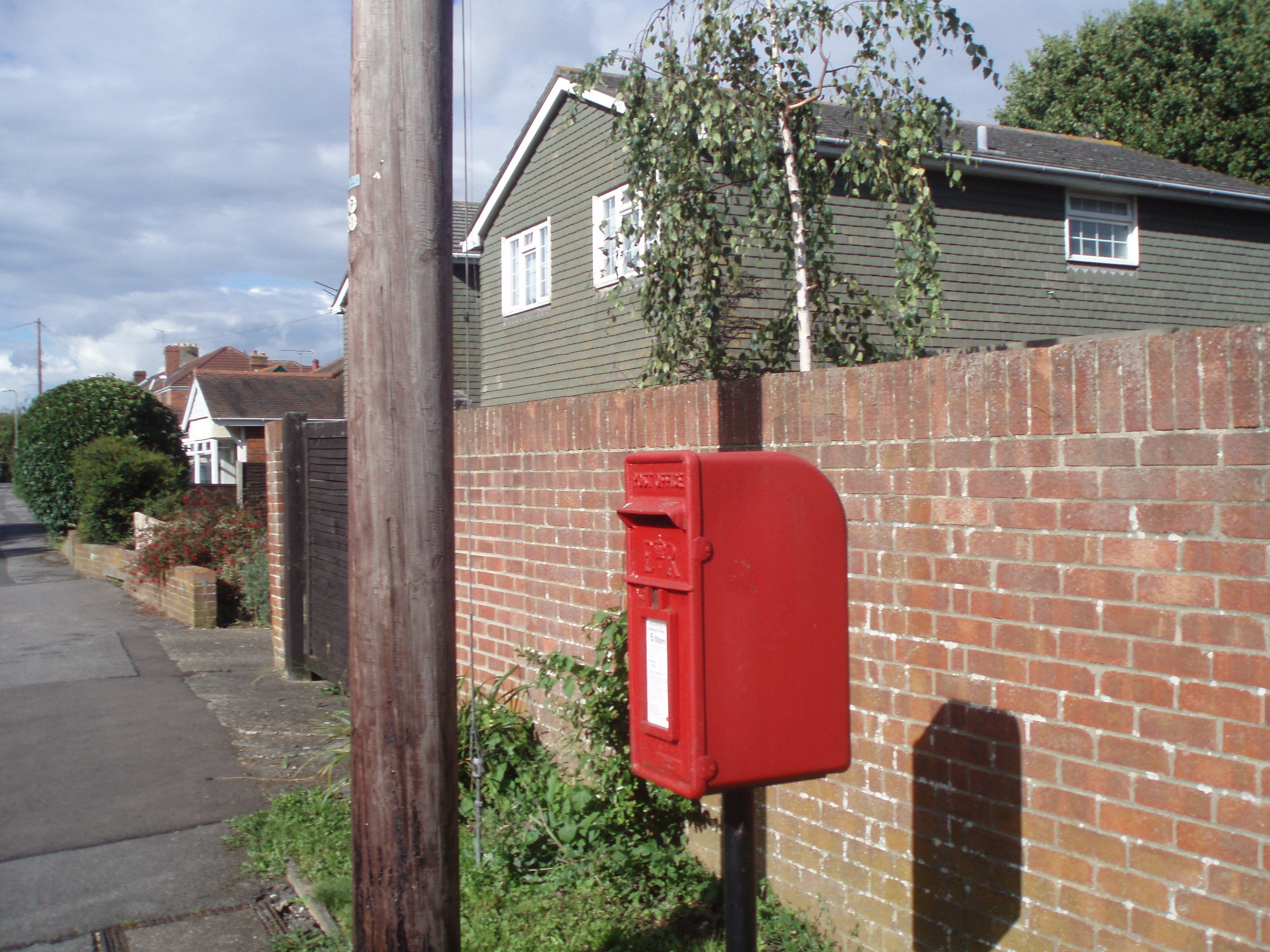 Photo taken 16th August 2007